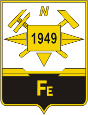 Olenegorsk (Murmansk oblast), soviet coat of arms